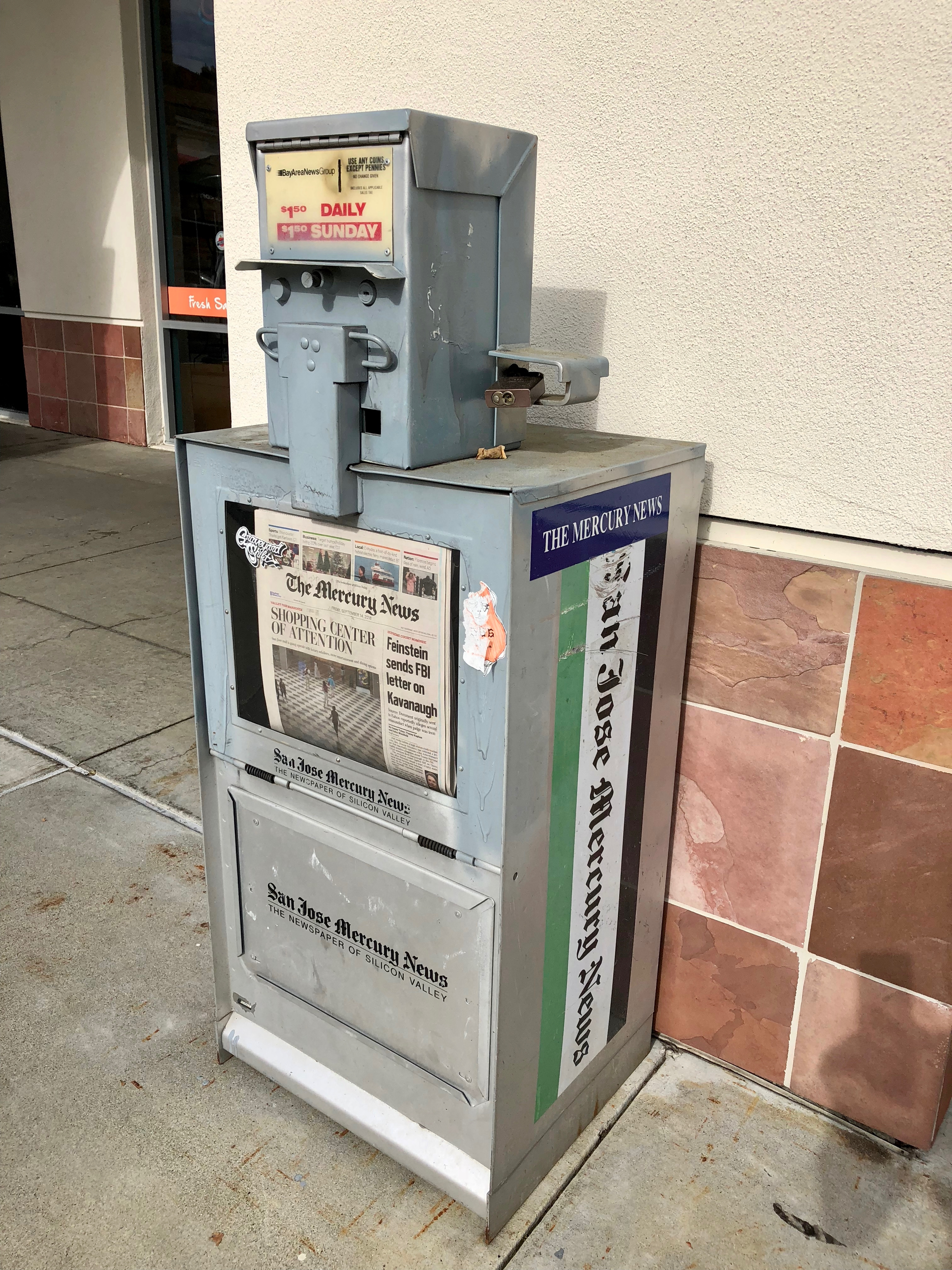 A vending machine selling copies of The Mercury News in Category:Santa Clara, California, United States. The vending machine bears the newspaper’s former name, San Jose Mercury News; a sticker bearing the current name has been affixed to the side.